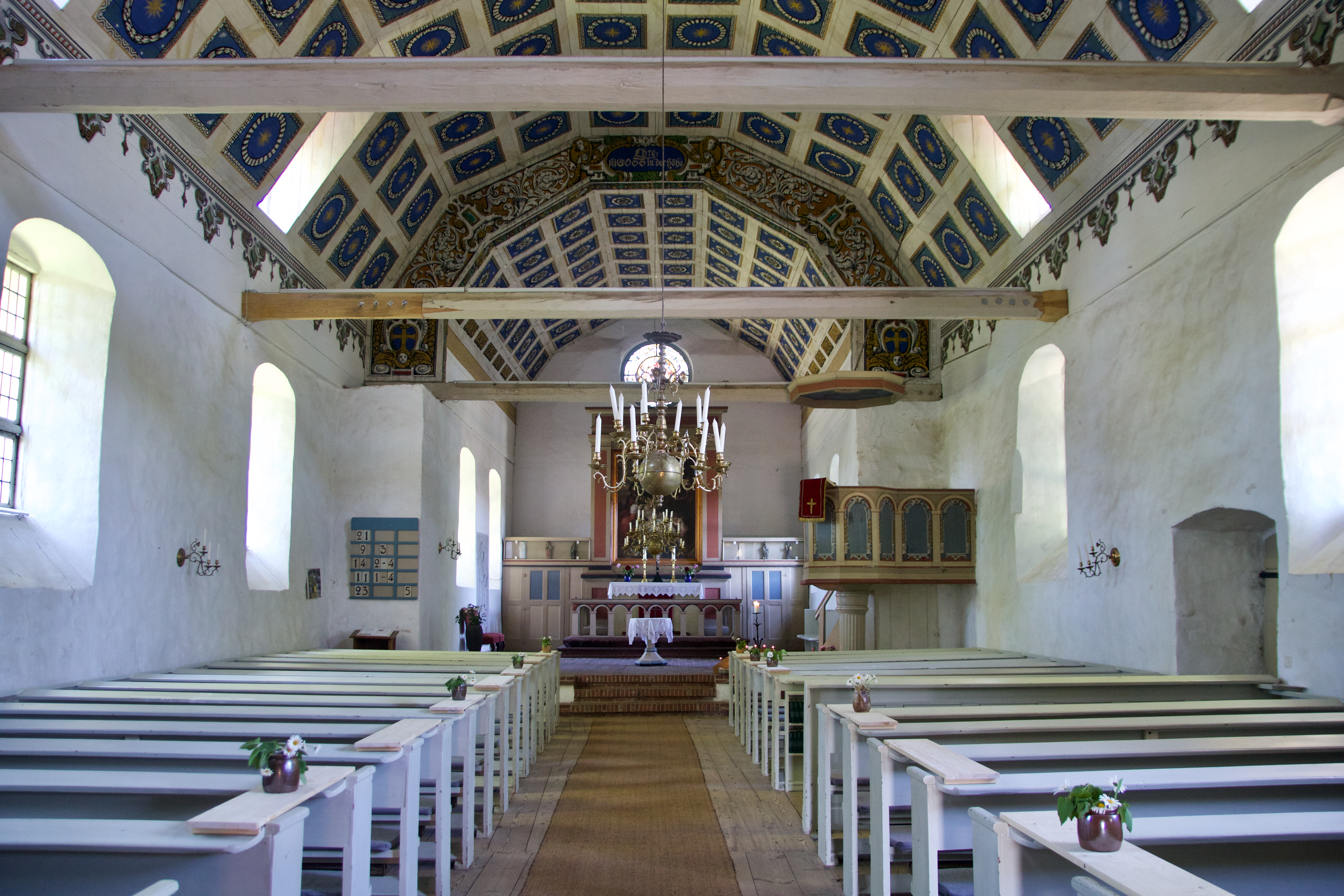 Interior of St Peter's Church, Benz, Usedom (Germany), view of the pulpit and the chancel which was added to the building in the late middle ages.